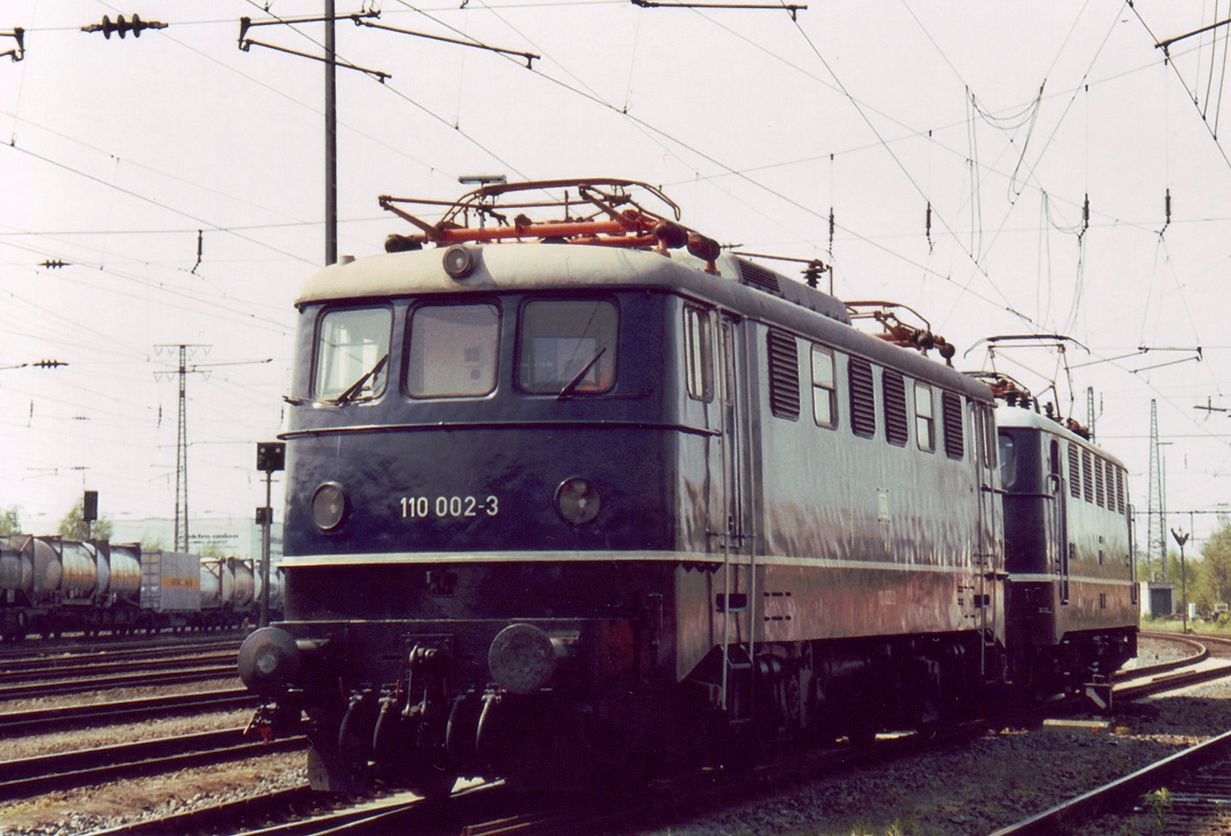 Historical DB electrical locomotive 110 002-3 (built in 1953) during a locomotive parade at the open-air exhibition ground of the DB Museum in Koblenz-Luetzel, a local branch of the Transport Museum in Nuremberg